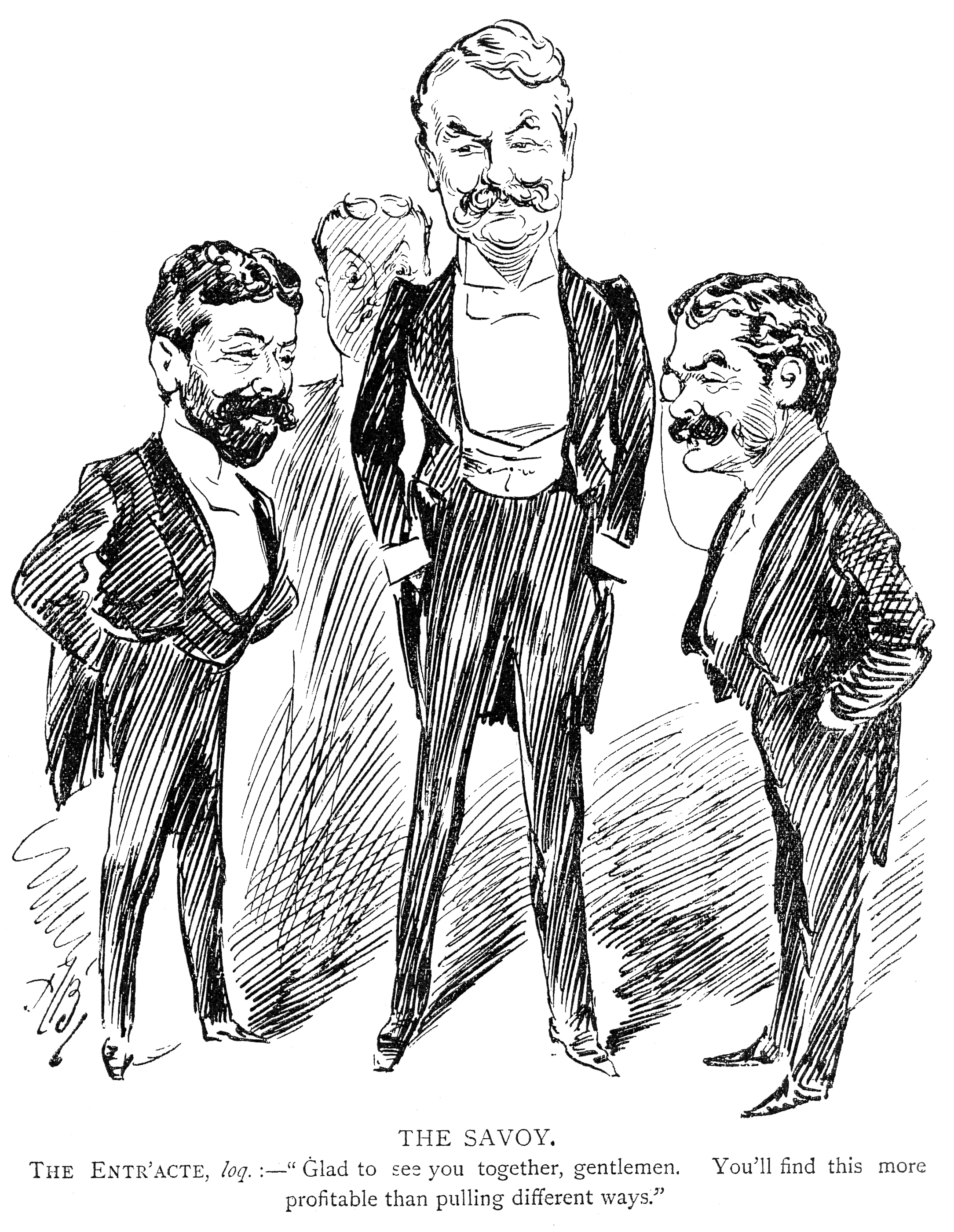 Richard D'Oyly Carte, W. S. Gibert, and Arthur Sullivan together again for Utopia, Limited, after a long quarrel.